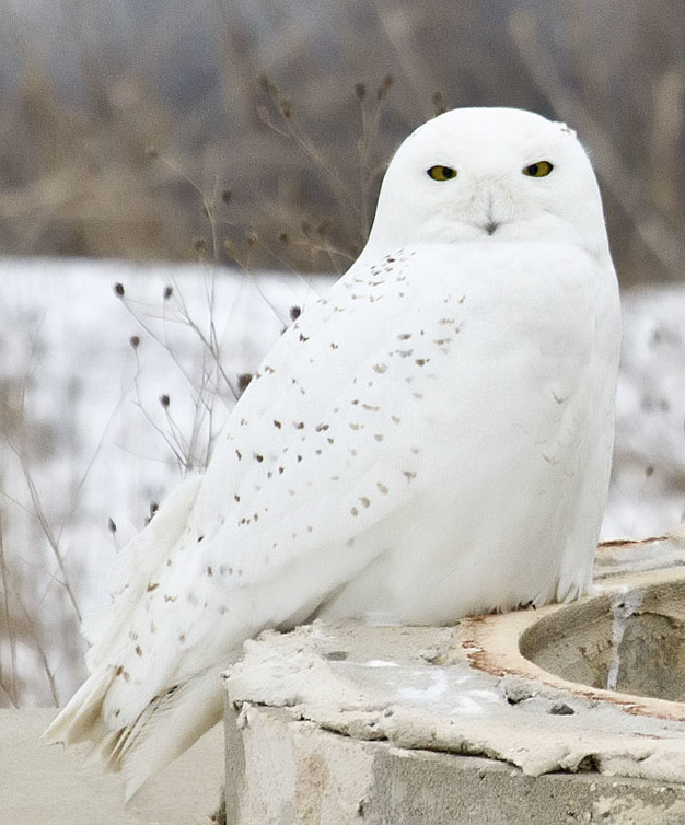 Adult male Snowy Owl Bubo scandiacus, Muskegon Co., Michigan, USA.